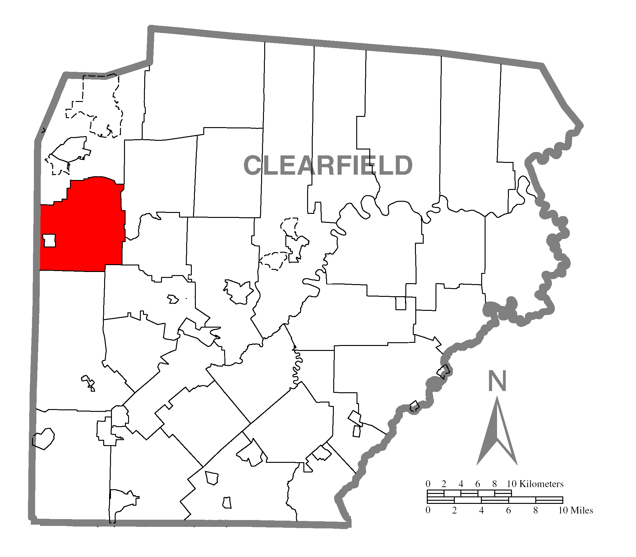 A map of Clearfield County showing Brady Township, Pennsylvania (alternate) highlighted on the map.